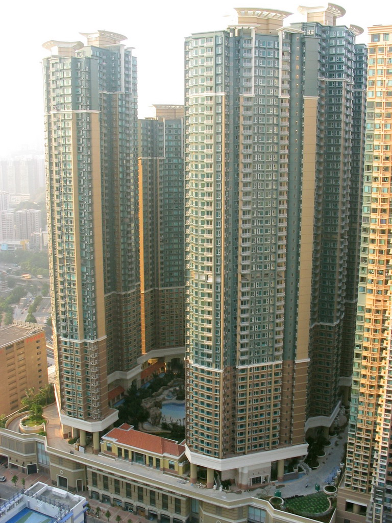 Banyan Garden, Cheung Sha Wan